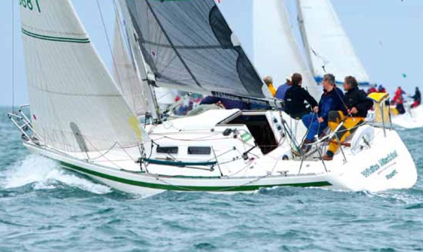 Hanse 291 sails upwind